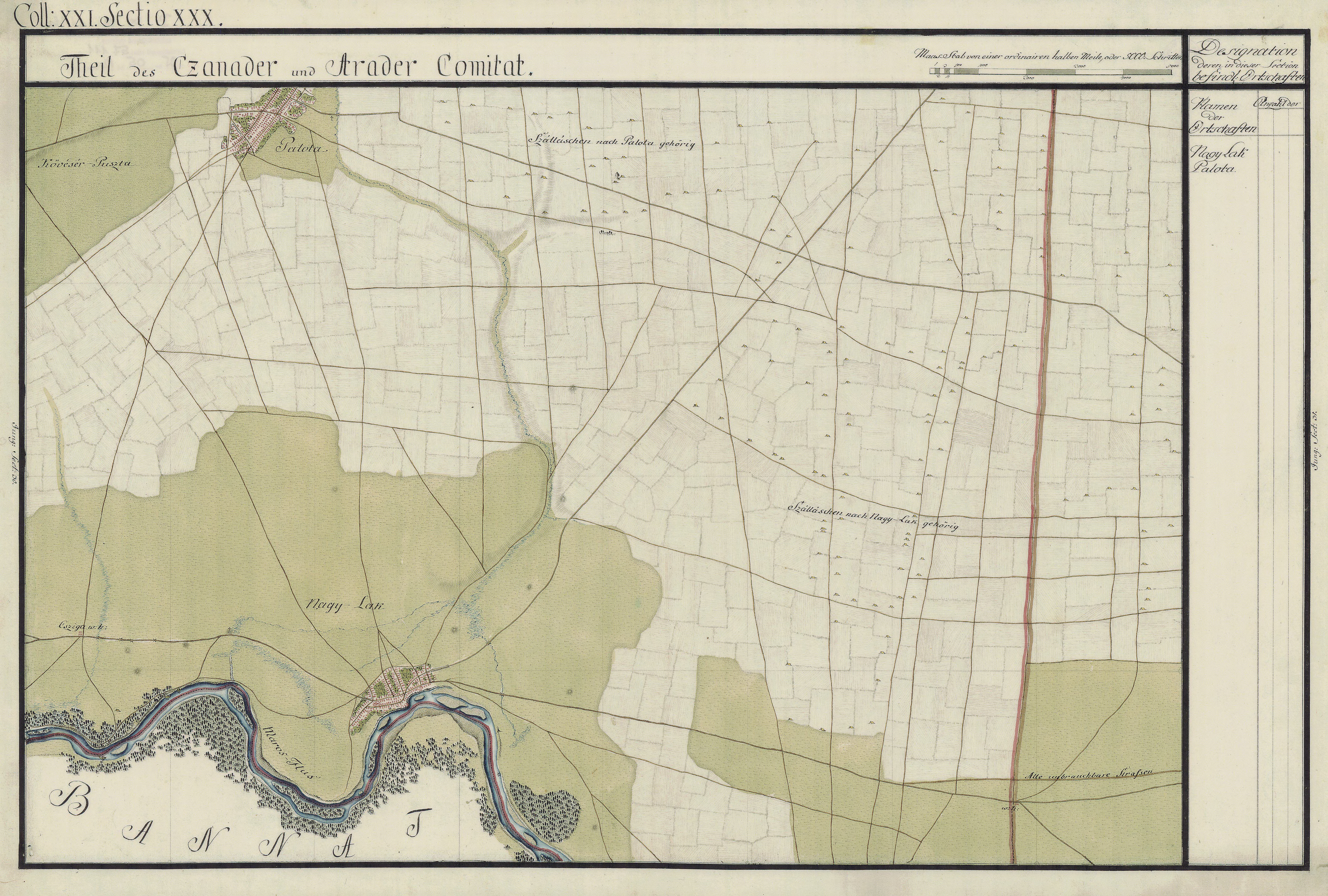 Arad County, 1782-85. Josephinische Landesaufnahme pg.21-30